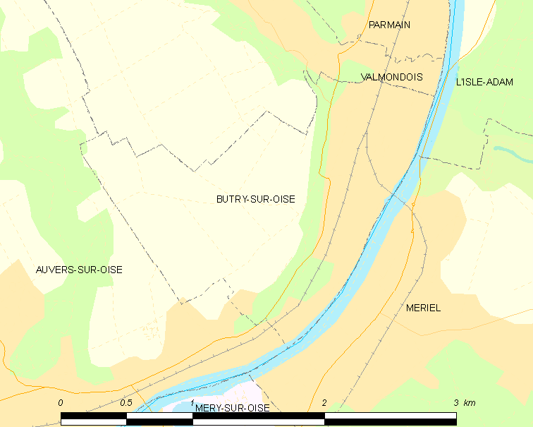 Map of French municipality Butry-sur-Oise